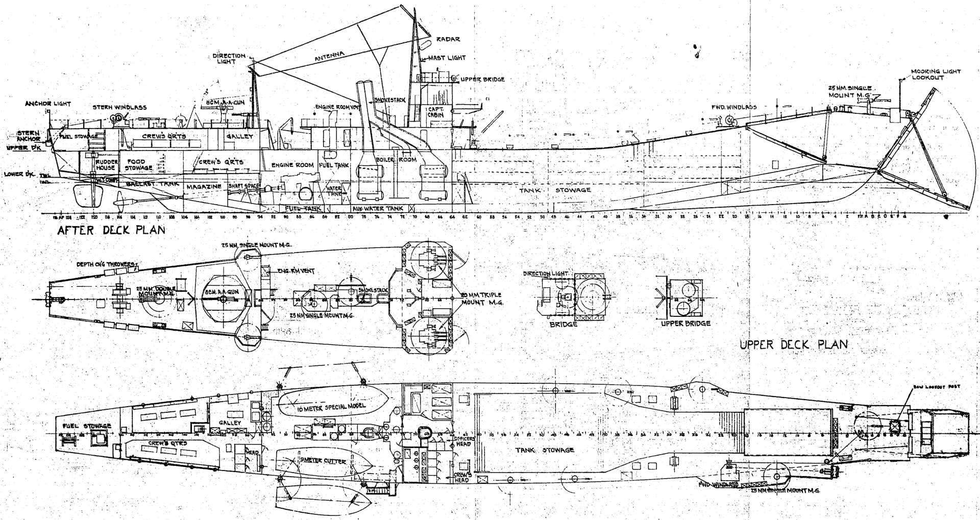 Schema of steam-turbine version (No.103 class) of the 2nd class transporter of the Imperial Japanese Navy according to Reports of the U. S. Naval Technical Mission to Japan 1945 – 1946